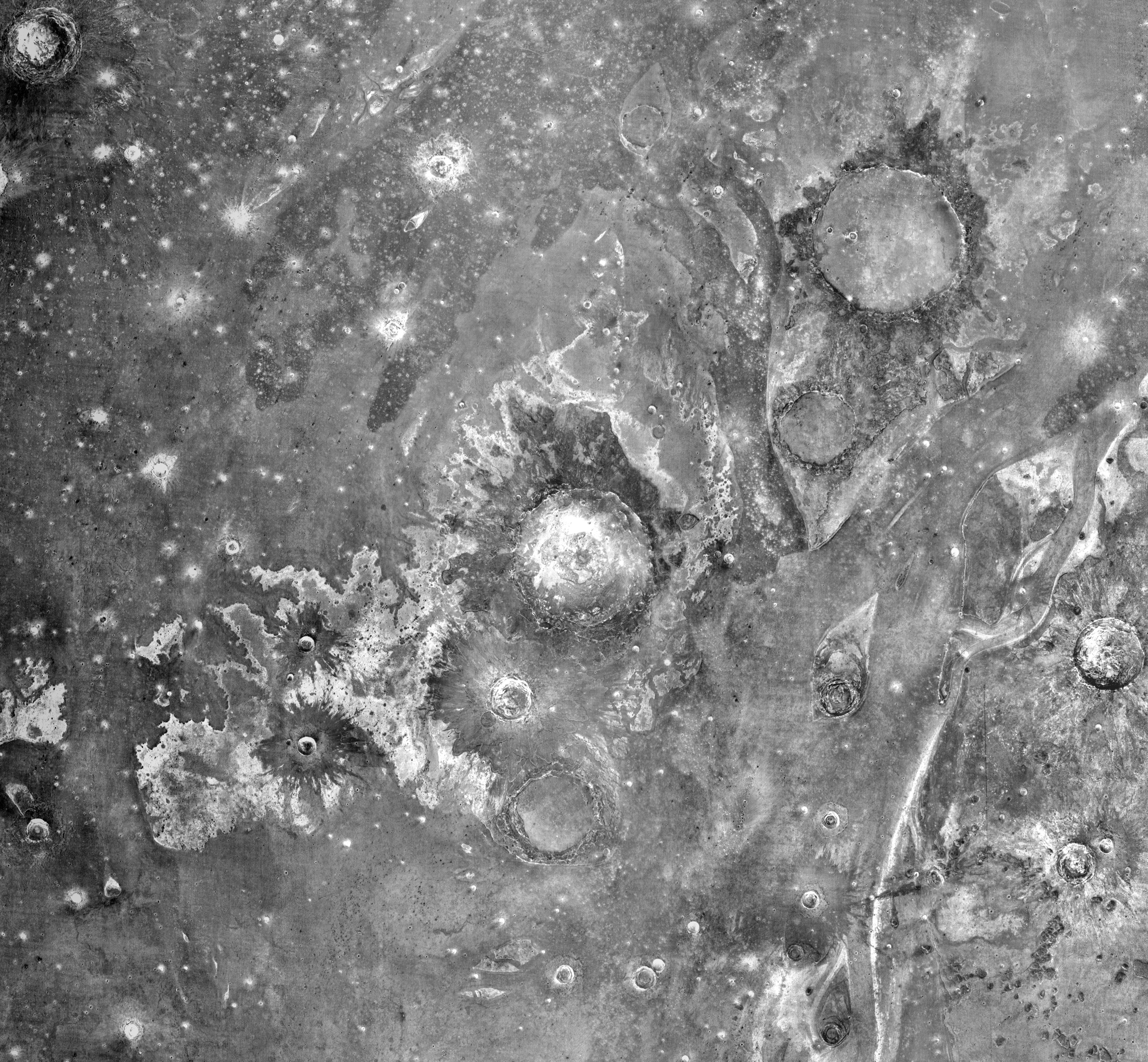 Acidalia Planitia Location: 325E, 23N Released: 2005/09/21 Instrument: IR Image Size: 617x537km, 6166x5336px Resolution: 100m